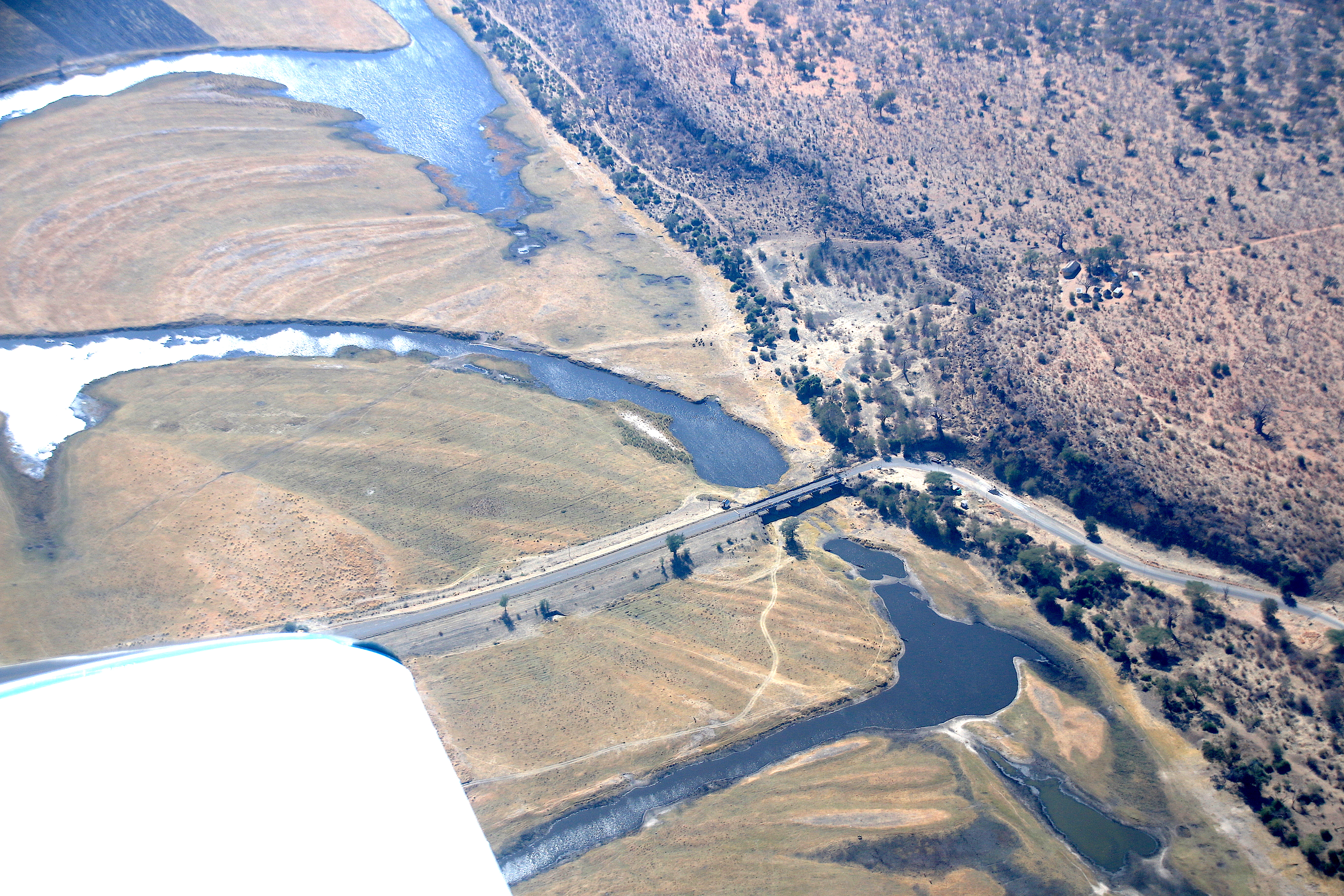 Ngoma Bridge (2019)